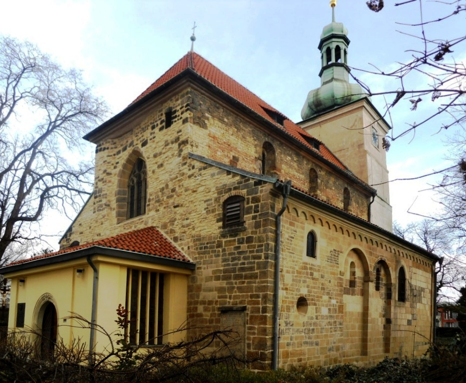 Prague 8 St Wenceslas church in Prosek